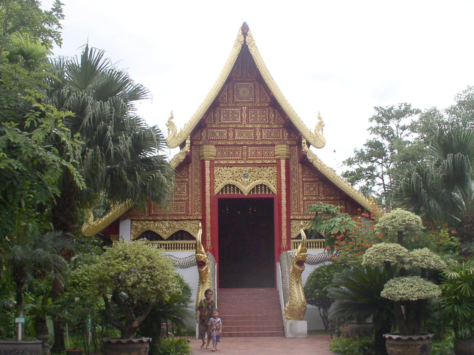 The entrance to the ubosoth at Wat Phra Kaew, Chiang Rai. Intricate exterior wall decoration.